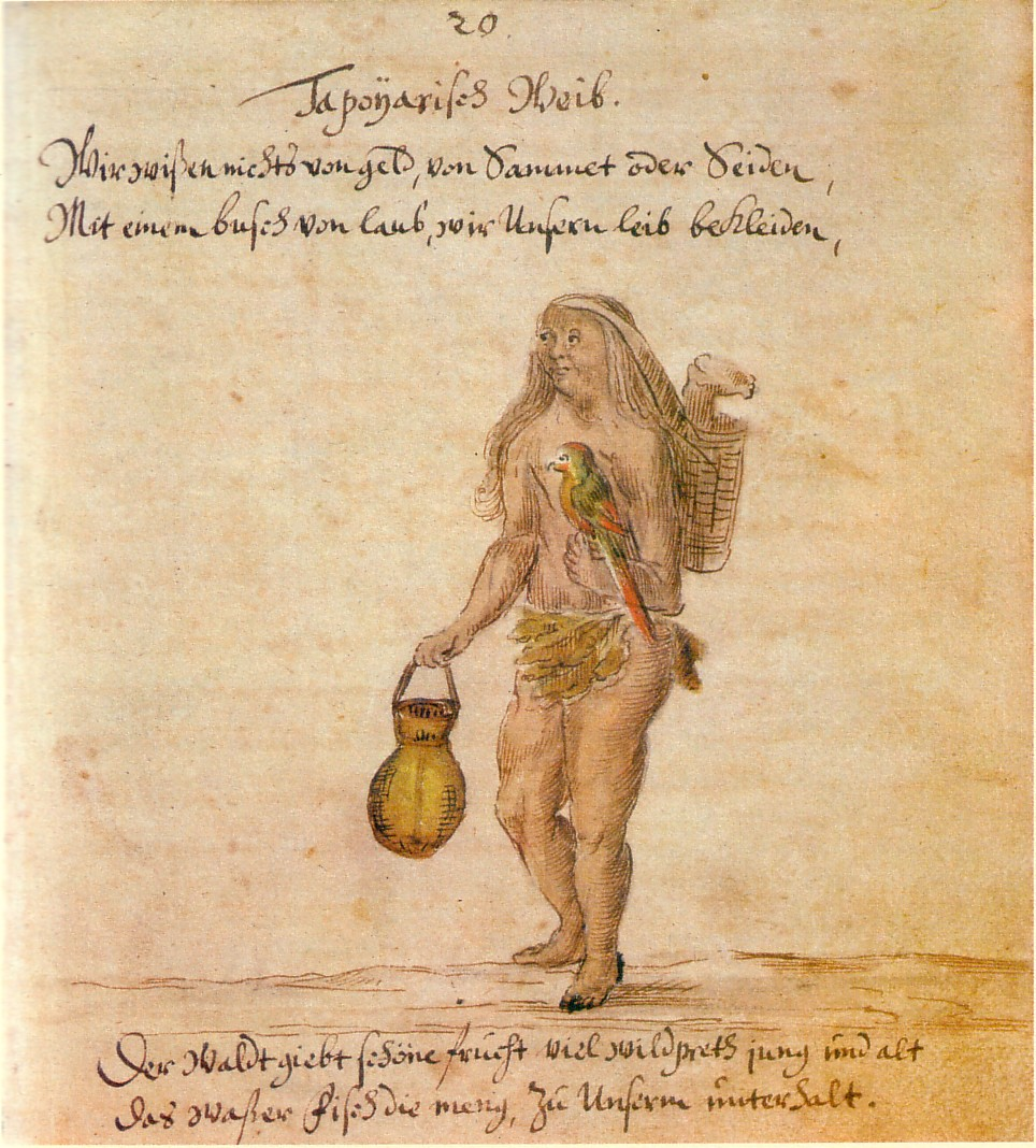 colored drawing by Caspar Schmalkalden (c.1618-c.1668)